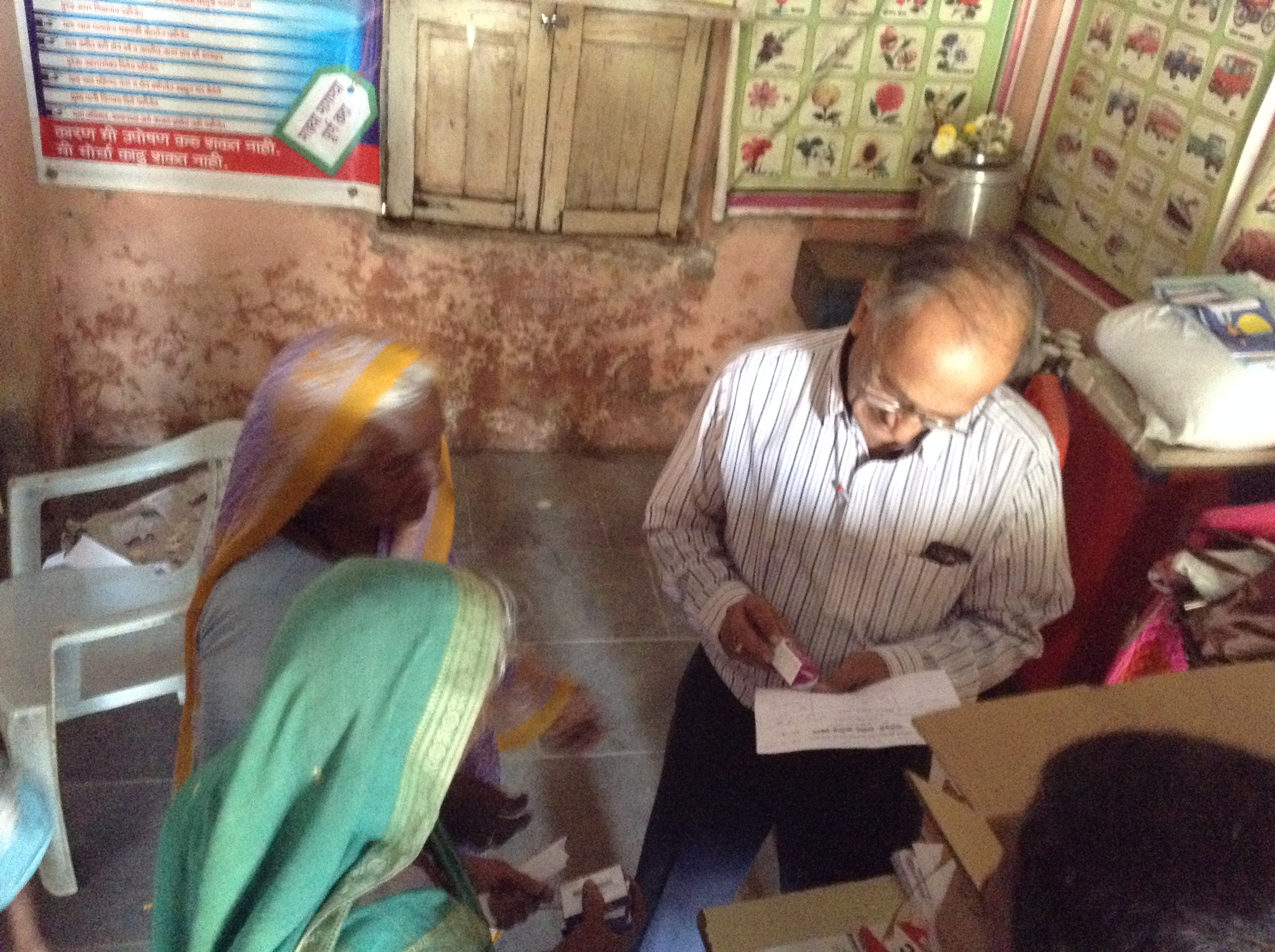 shruti kan tapasani